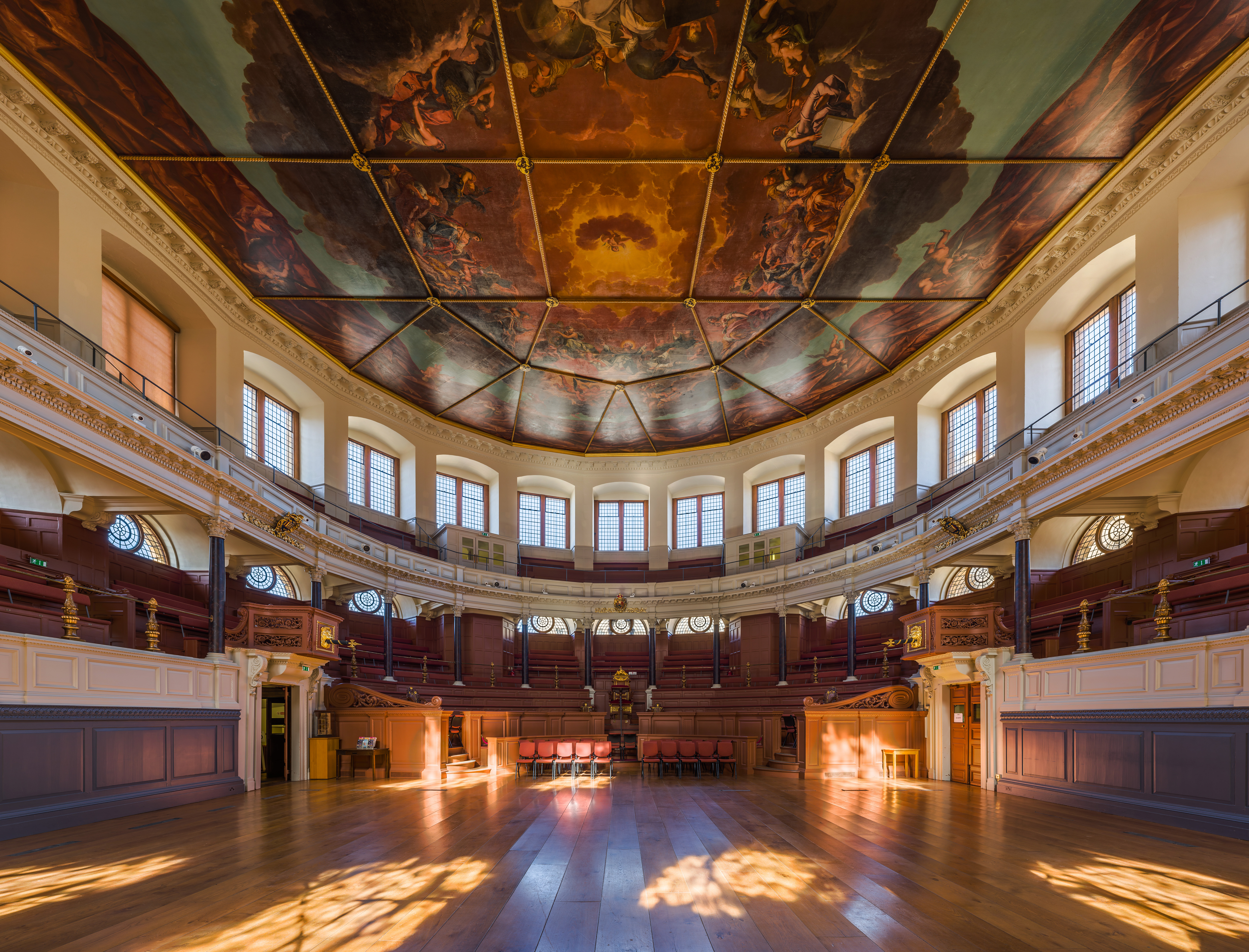 The interior of the Sheldonian Theatre, looking north, in Oxford, England.